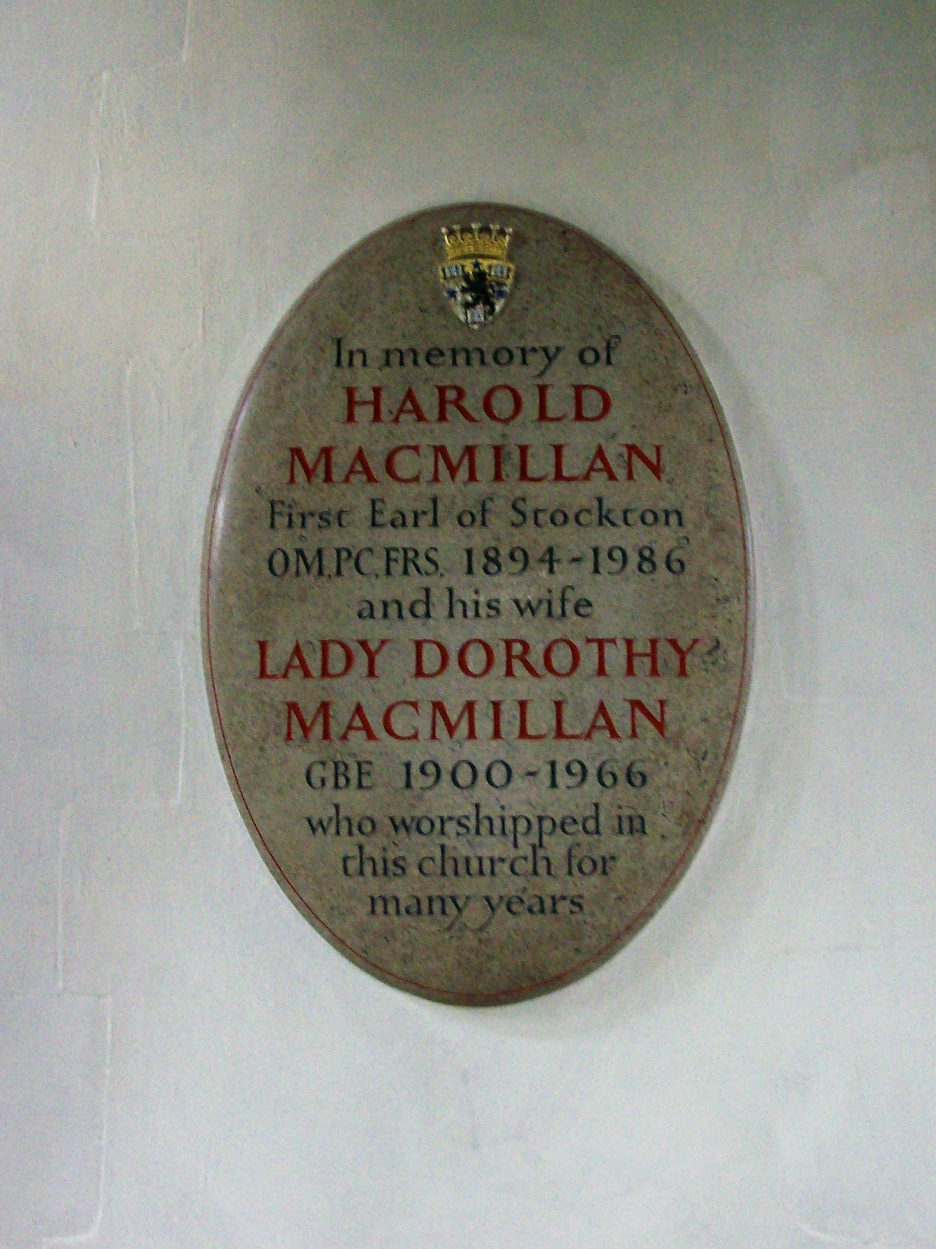 Plaque commemorating Harold and Dorothy Macmillan, St Giles, Horsted Keynes